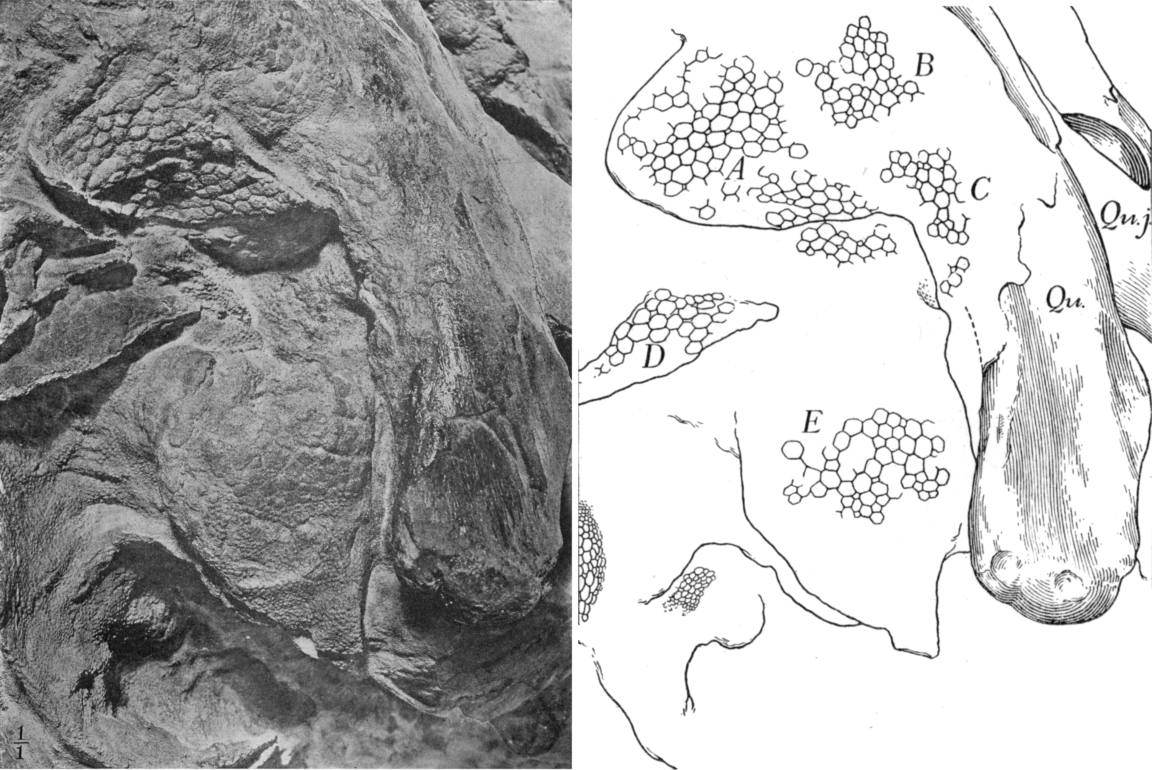 Detail of skin impressions at the back of the head of the Edmontosaurus mummy AMNH 5060. Original caption for photograph (Fig. 4 in Osborn, 1912): Skin impressions of the right jugular region and of the cheek over the quadrate bone, showing the clusters of large pavement tubercles interspersed with small rounded tubercles. Trachodon annectens 'mummy', Amer. Mus. No. 5060. Original caption for interpretive drawing (Fig. 4a in Osborn, 1912): A, B, C, D, E, grops of larger or pavement tubercles, Qu, quadrate; Qu. j., quadrato-jugal.